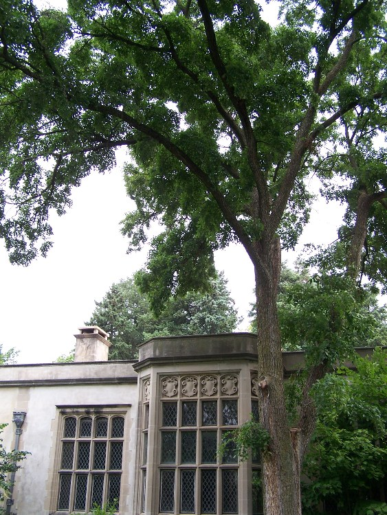 Morton 'Accolade' Elm, one of the original hybrid cultivars at the Morton Arboretum.